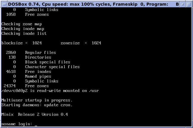 MINIX 2.0.4 running in DOSBox. System startup and login.